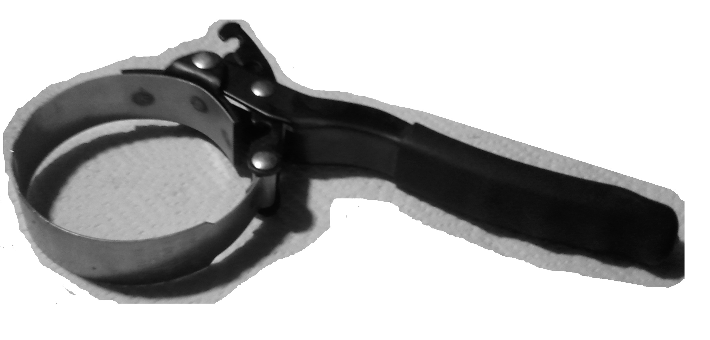 One of various types of oil filter wrench.